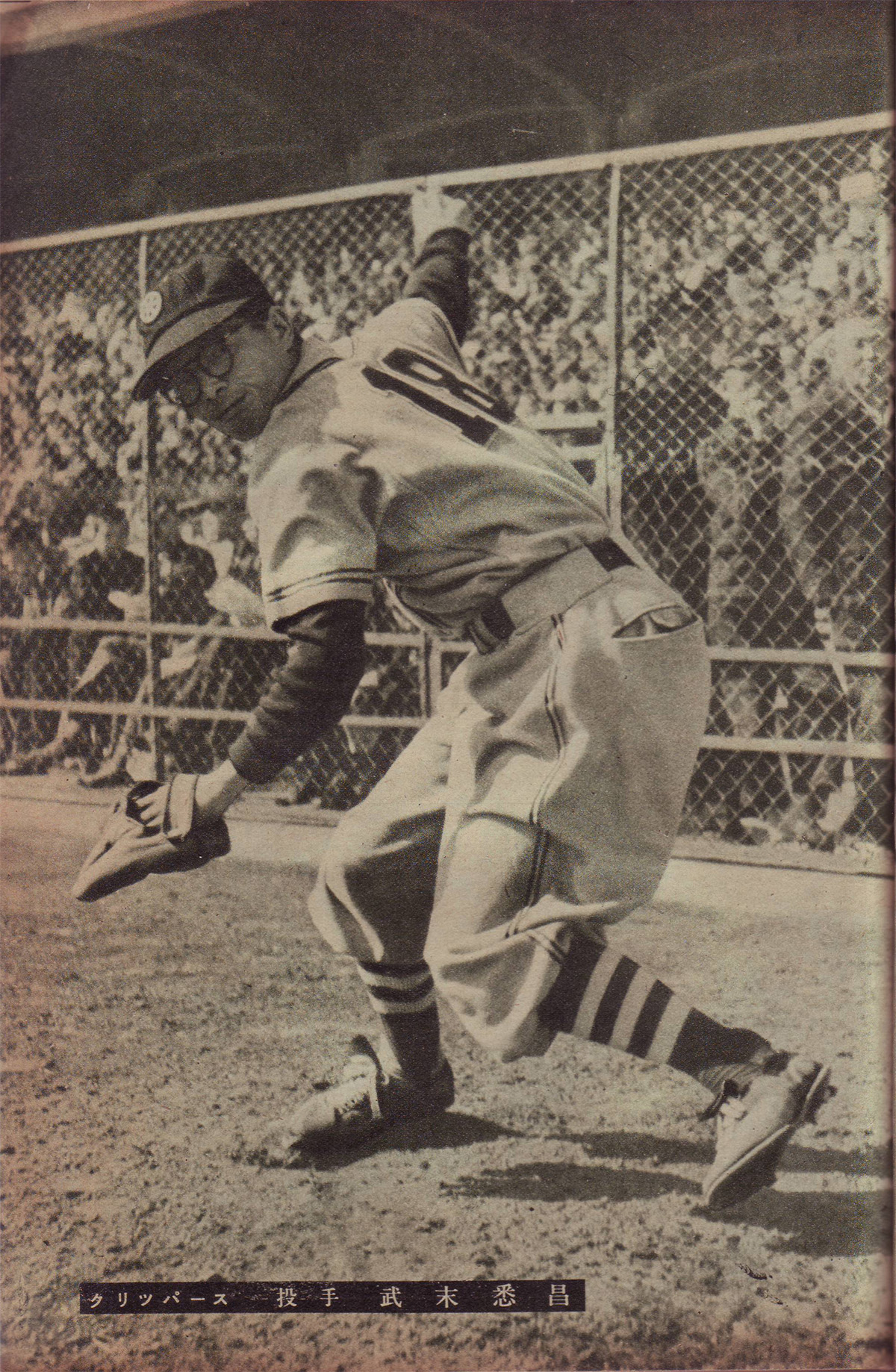 Shissho Takesue(Nishitetsu Clippers). taken in 1950.